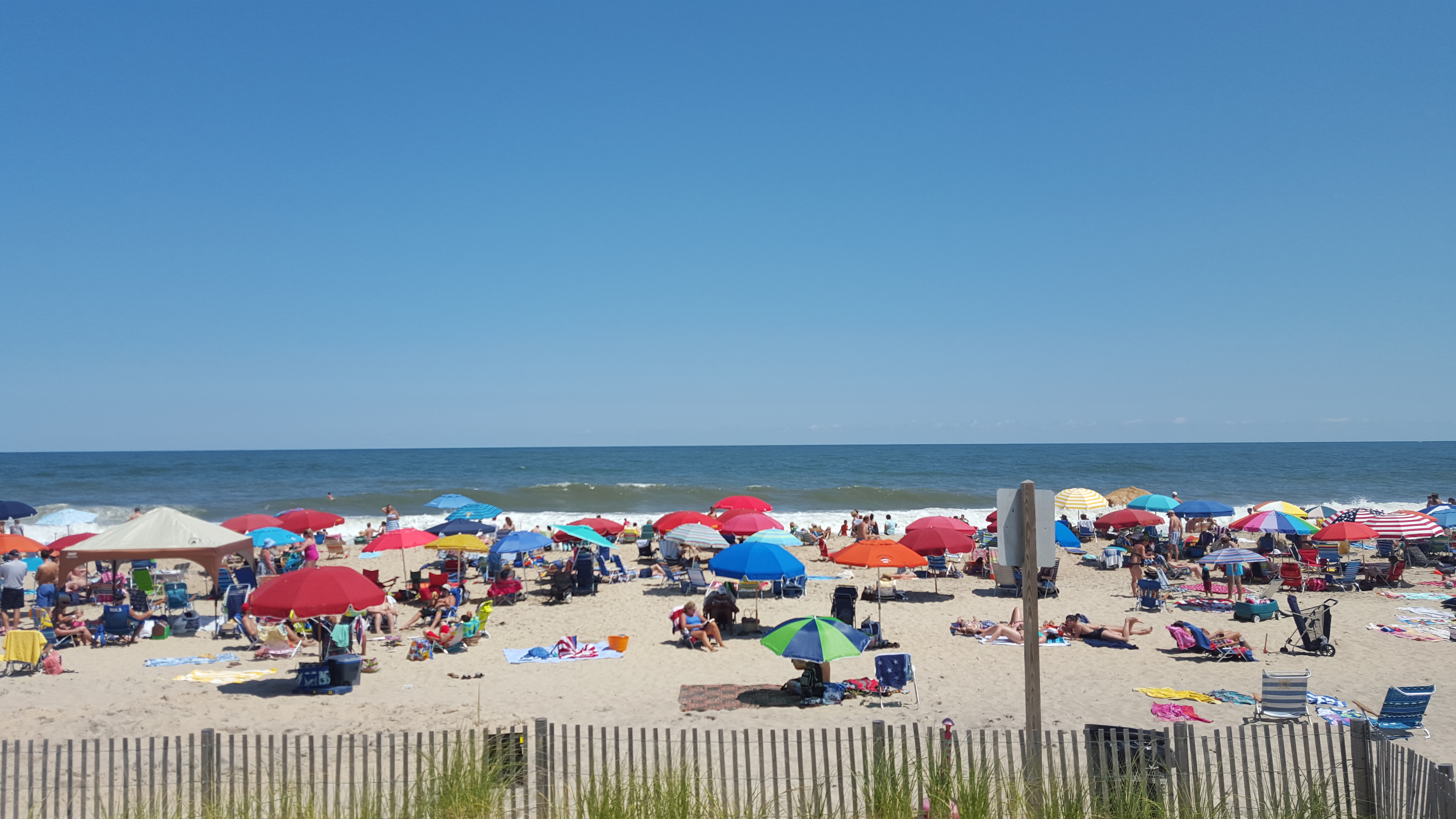 Shore of Bethany Beach, Delaware